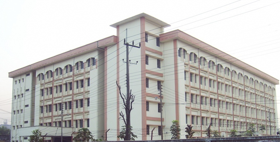 Academic building of Chittagong Model School and College